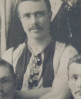 Photograph of George Williams in 1901